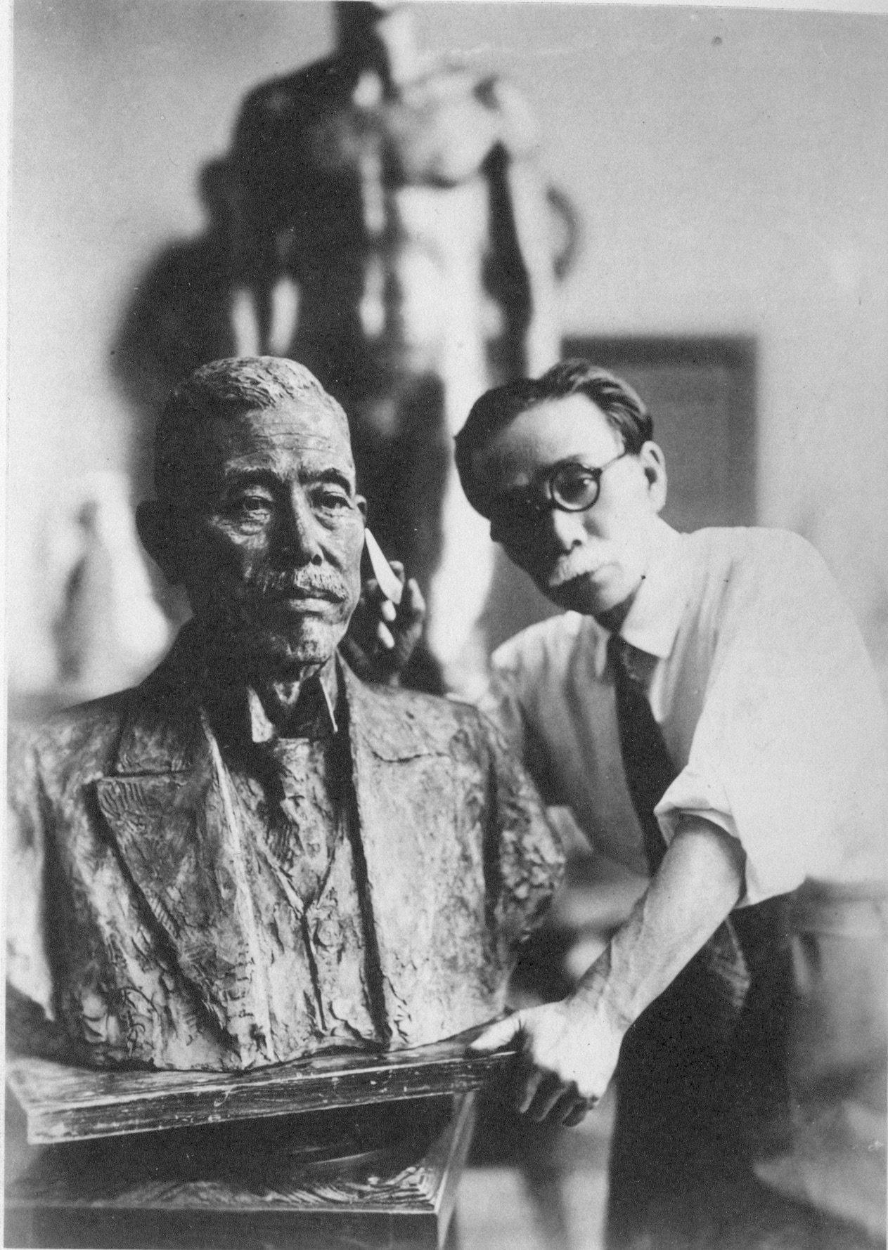 A portray of Taimu Takehata sculpting a bronze statue of Kurata Morishima. Digitized from 70th anniversary photo album of Morishima in 1937.